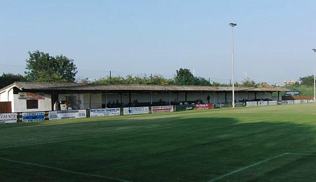 View of Faversham Town F.C.'s home stadium. My own picture.